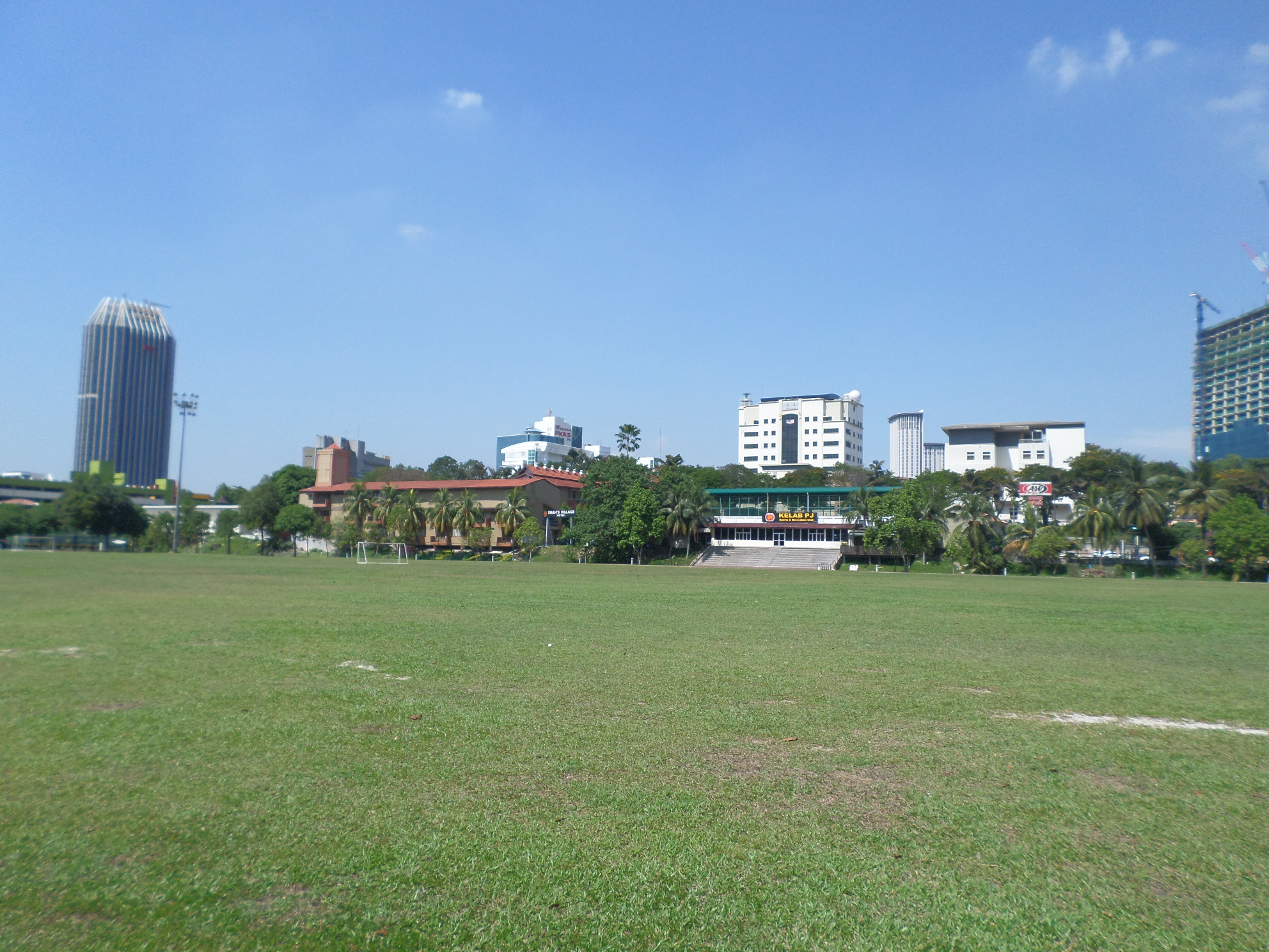 Petaling Jaya Square, Petaling Jaya, Petaling, Selangor, Malaysia